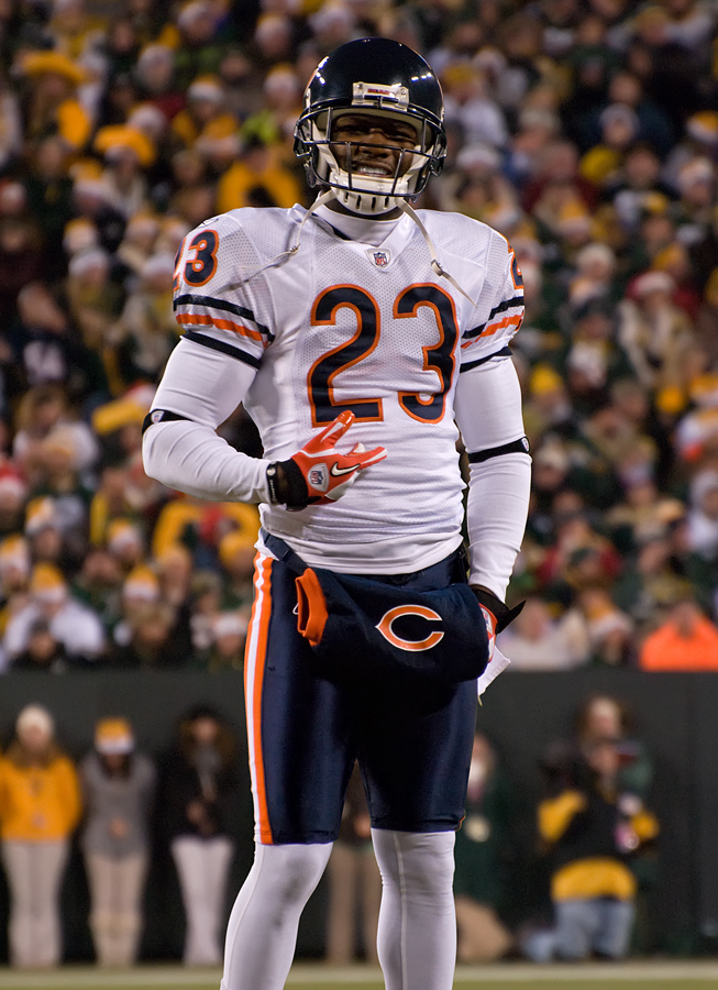 Chicago Bears vs. Green Bay Packers at Lambeau Field on December 25, 2011. Photo by Mike Morbeck.